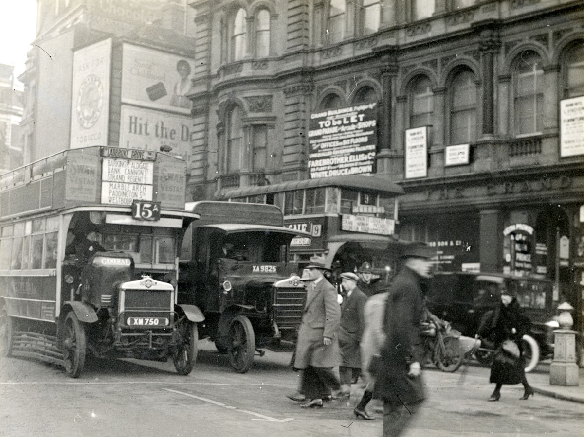 London traffic at the west end of the Strand heading west, about to enter Trafalgar Square. In view are two buses sandwiching a lorry, plus a motorcylce with sidecar and a car, perhaps a London Taxi?. The buses are AEC NS-Type double-deckers of the London General Omnibus Company, the nearest being the early open top type, the other being the later type with a closed roof. The building is 'The Grand ?' office block and shopping arcade that stands on the corner of Strand and Northumberland Avenue. The block still stands in 2012, but the 'Grand' name has since dissappeared.